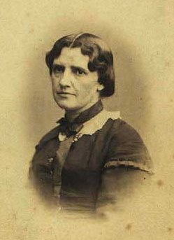 Anna Magdalene Thoresen, née Kragh (1819-1903), Dano-Norwegian writer